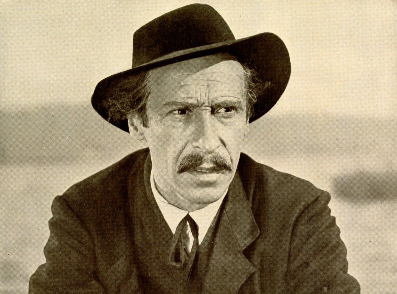 photo of Alessandro Fersen from archivio personale (1953)